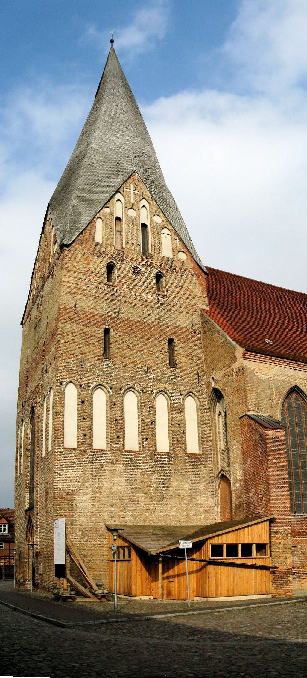 Tower of church in Bützow, district Güstrow, Mecklenburg-Vorpommern, Germany